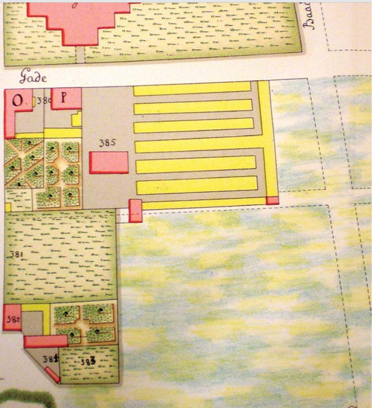 The Philip de Lange House and associated saltpeter plant in Christianshavn, Copenhagen, Denmark